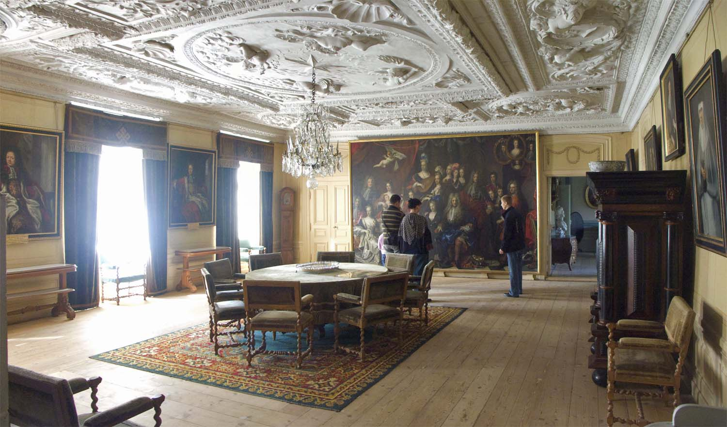 Interior from the Nynäs palace, Sweden, the man's hall on the second floor.